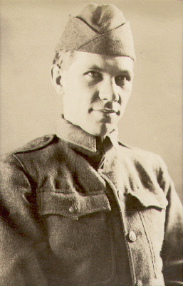 Harold Ross during World War I.